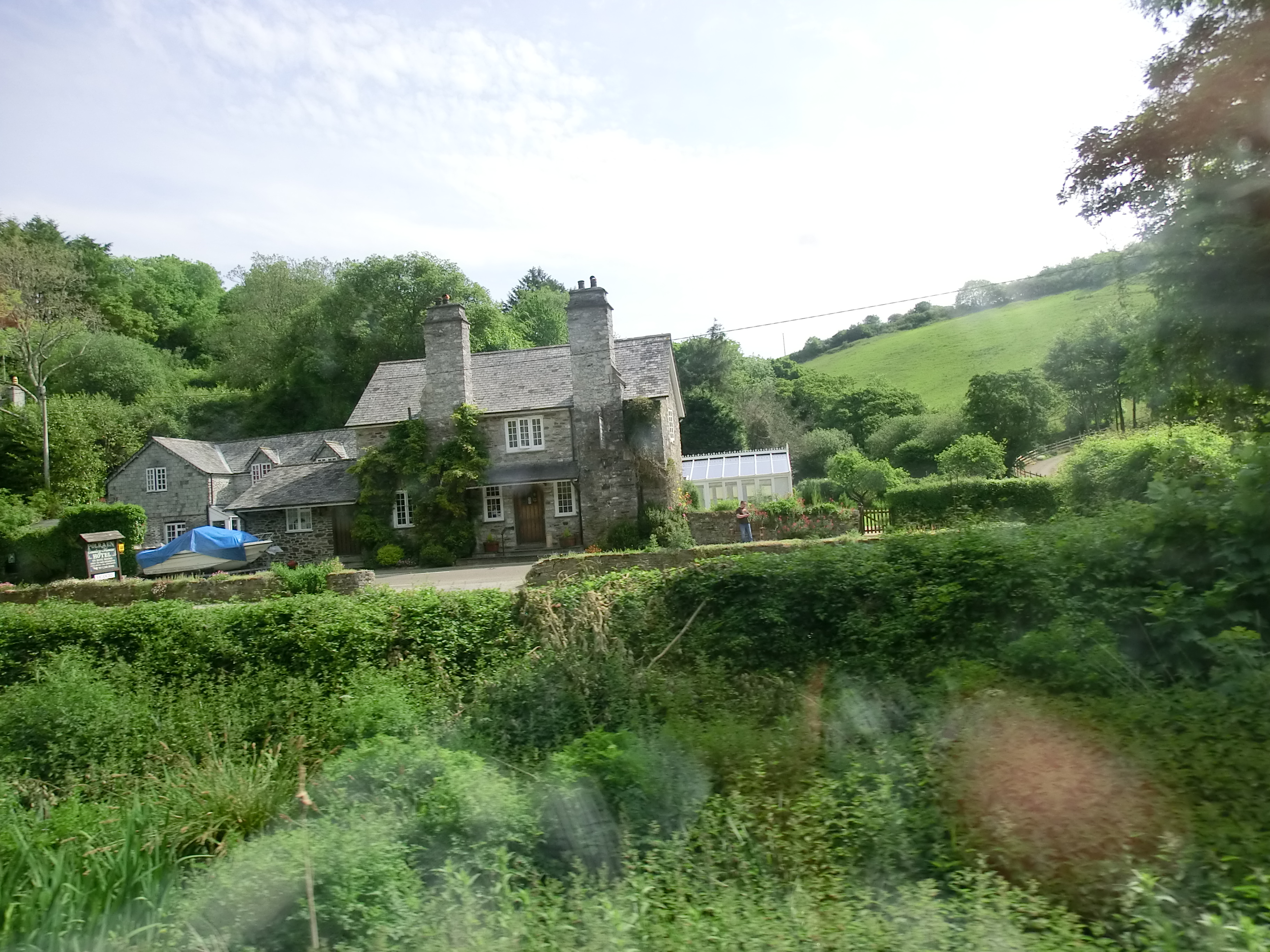 House next to Looe Line